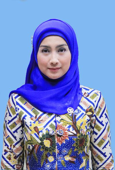 Portrait of Desy Ratnasari as MP of People's Representative Council of Indonesia period 2014—2019